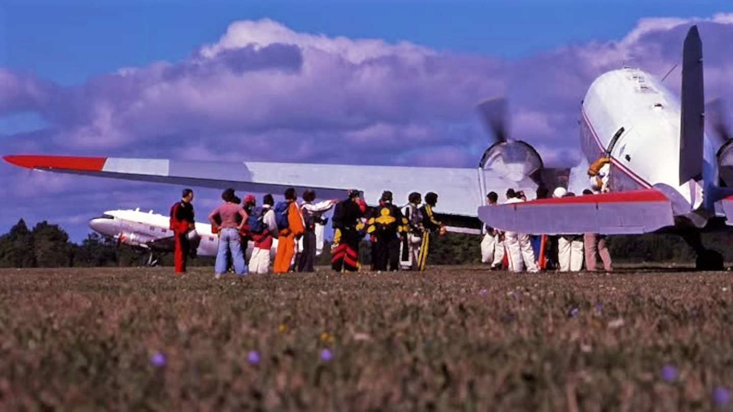 Two C-47Bs (DC-3s - C-GSCA & C-GSCB) - one boarding parachutists, while the other taxis by in the background, at the Goderich Airport in W:Ontario, W:Canada in 1977. These two, along with a Lockheed Lodestar, were supporting the Goderich Goodtime Boogie Skydiving Jamboree as part of Goderich's Jubilee 3 celebrations. More info in the Goderich Airport article. Status of planes as of June 2020: C-GSCA, first flown in 1945, crashed during an emergency highway landing attempt with 1 fatality, ~7 years after this shot was taken, probably caused by a refueling error, and it was written off as damaged beyond repair.[1] C-GSCB, first flown in 1944, was in service until January 2020, when it joined the American Airpower Heritage Flying Museum in Dallas, TX[2]